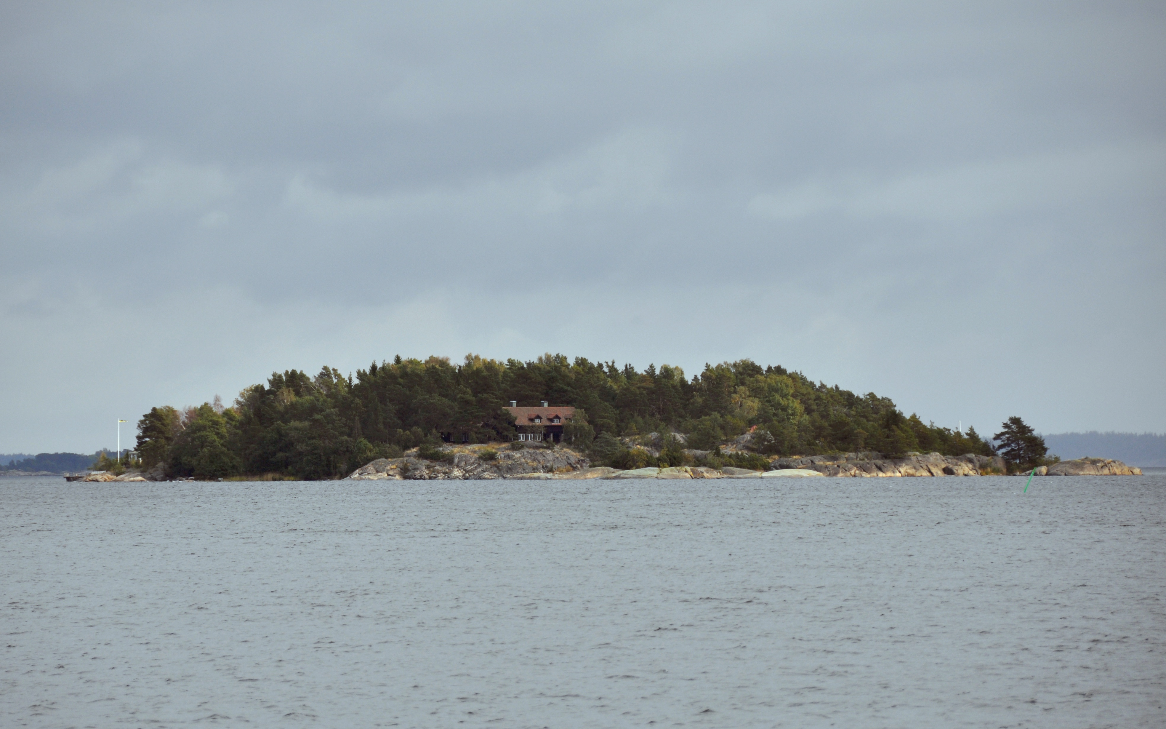 Ivar Kreugers's summer villa at at Ängsholmen in northern Kanholmsfjärden.